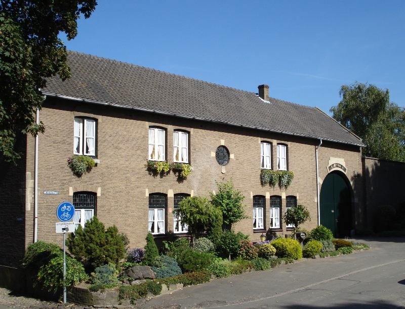 National monument no. 27952 - Heserstraat 20, Maastricht, The Netherlands.